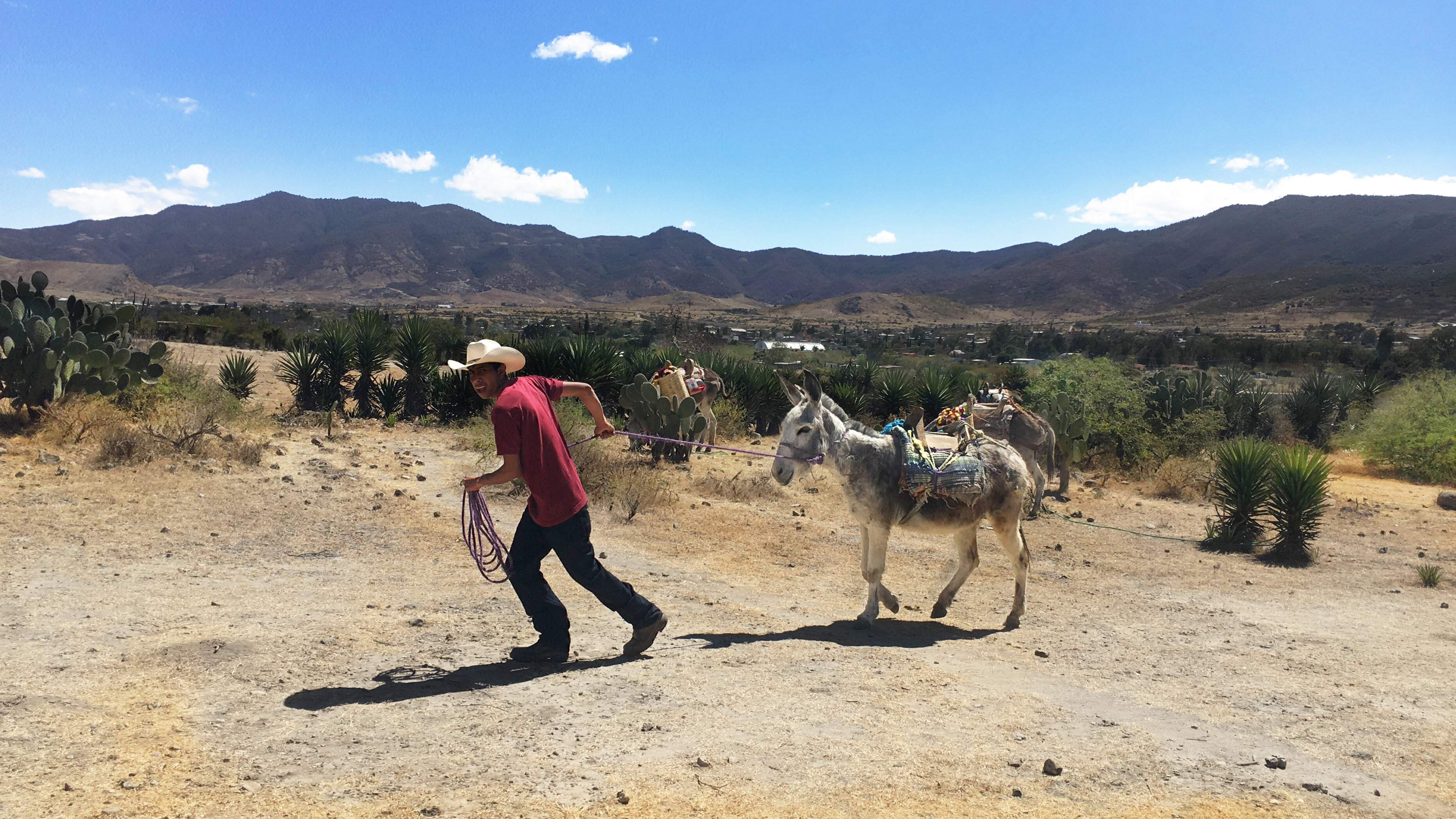 This photo was taken close to Santiago Matatlan on February 16th, 2018, the day that an 7.2 grades earthquake hit the coast near to the state and was felt in Mexico City as well.